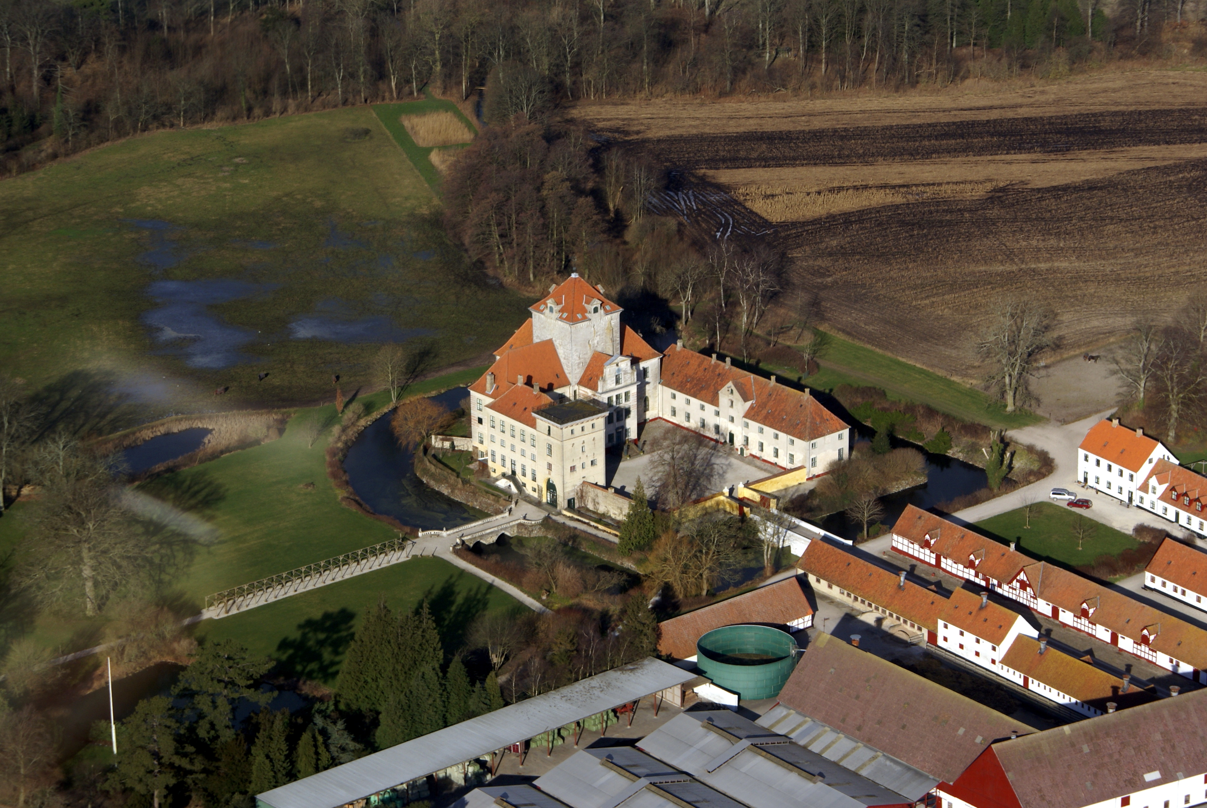 The Gjorslev Castle, Denmark